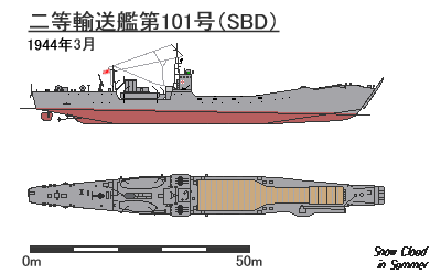 Figure of Japanese landing ship No.101 as completed. (before increase machine gun)